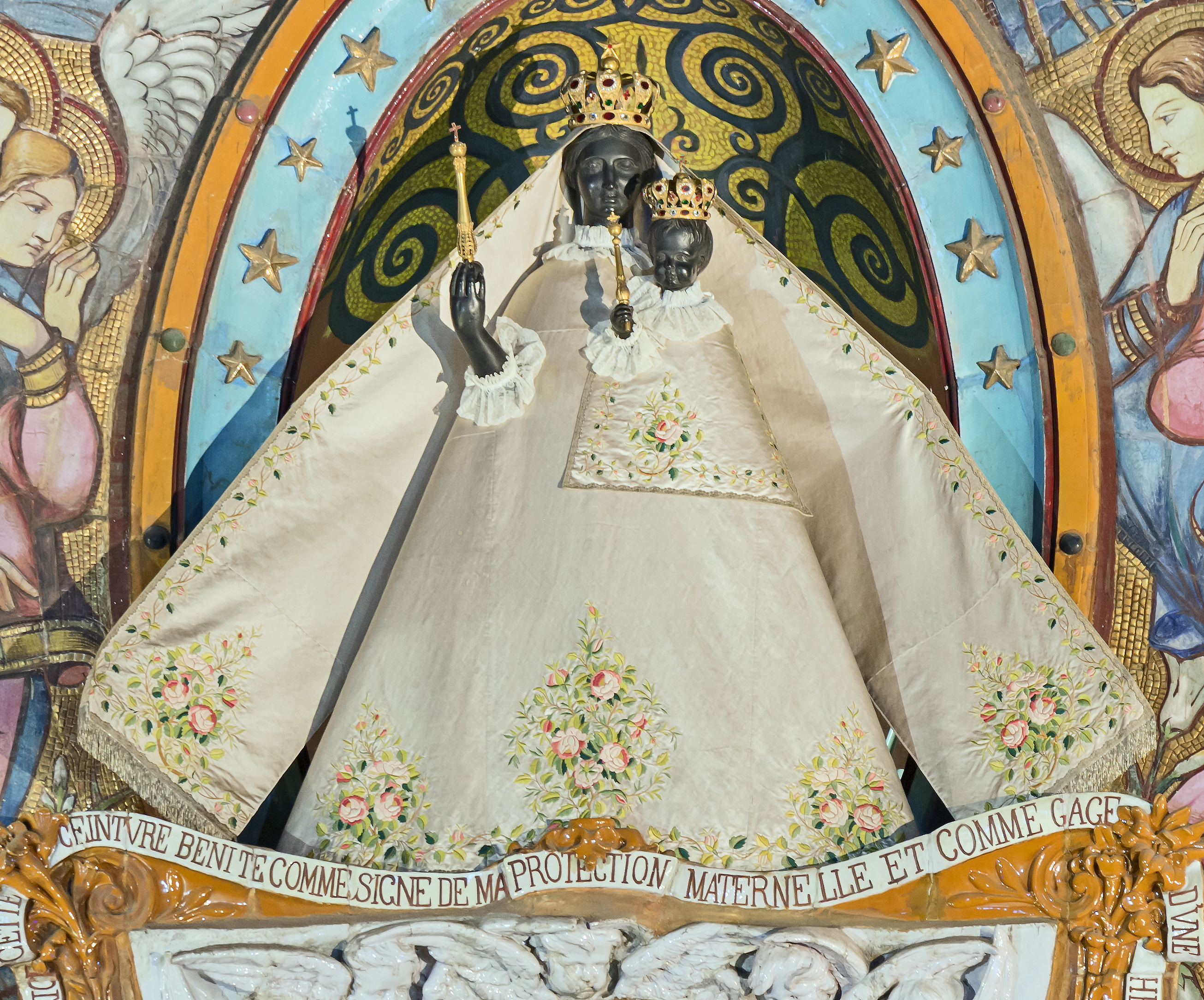 Black Madonna, Basilica of Notre-Dame de la Daurade in Toulouse. Sculpteur: Jean-Louis Ajon.